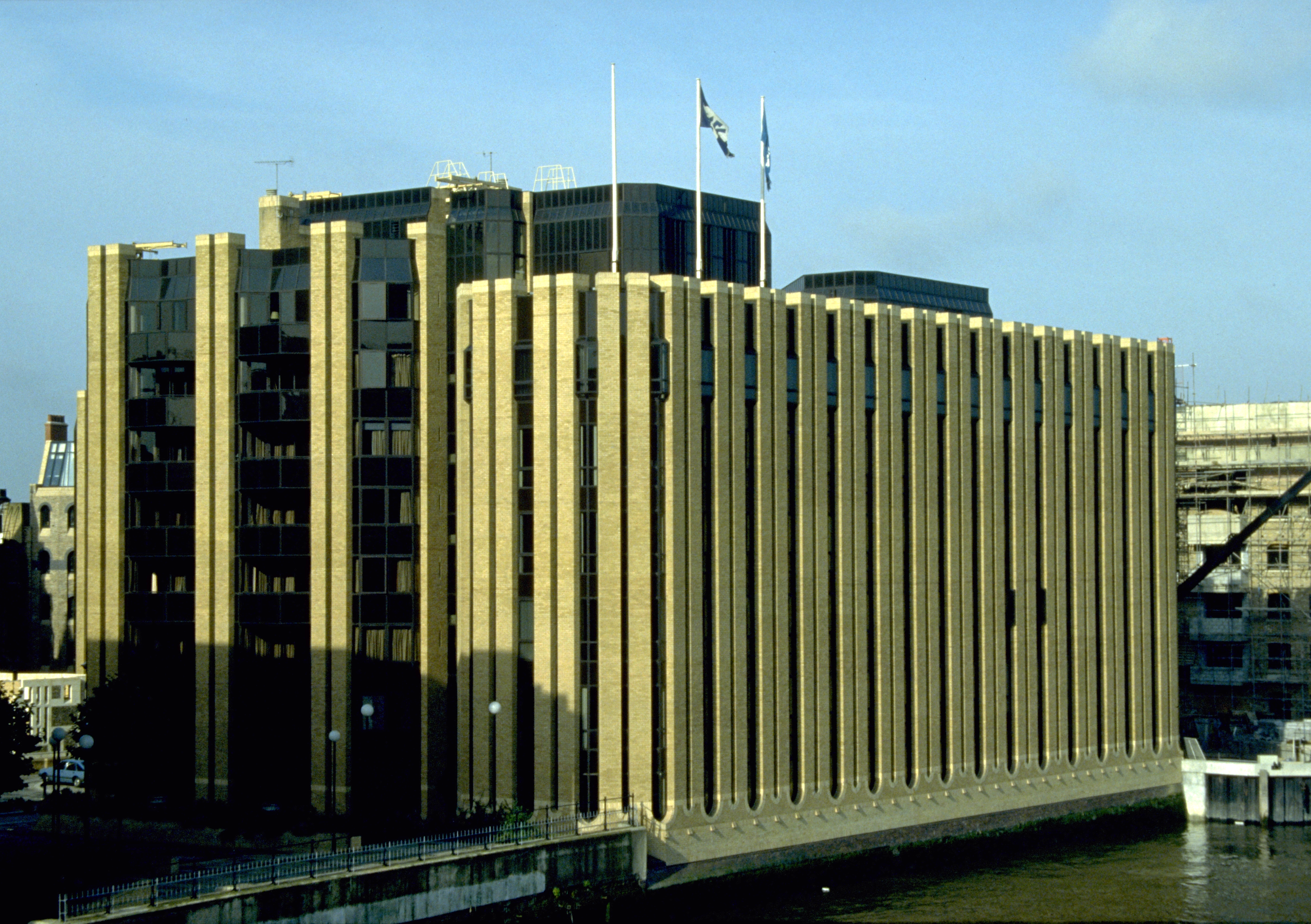 Minerva House is on the south bank of the Thames alongside Southwark Cathedral. At the time of this photograph in c1985 it was the corporate headquarters of Grindlays Bank and valued at £42 million[1].